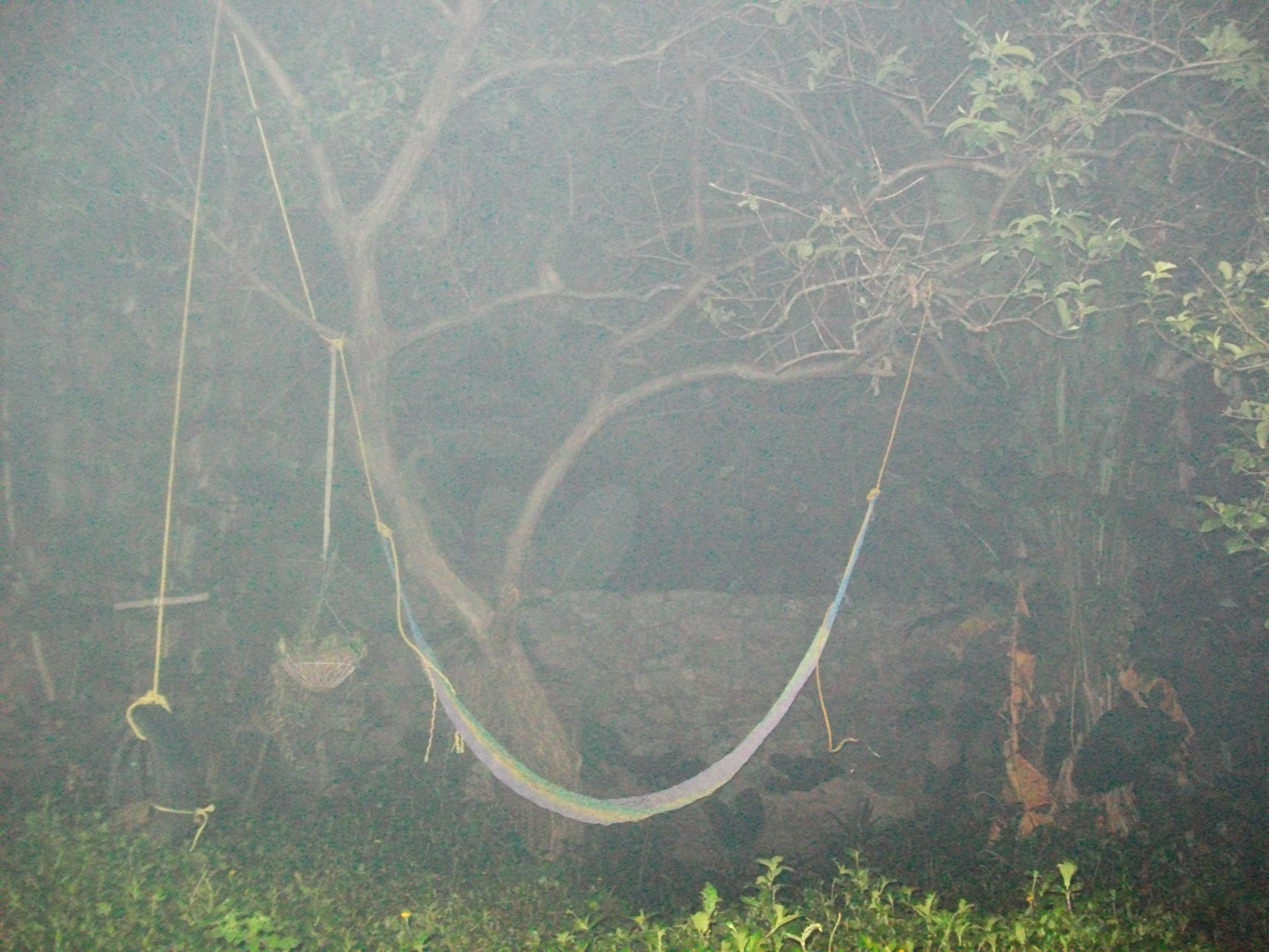 Fog created by fumigating agent for mosquito control, Dengue season: Maracay, Venezuela.